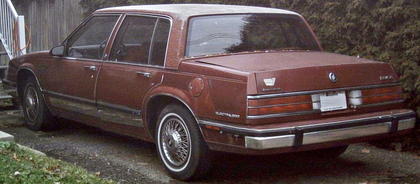 1985-1990 Buick Electra photographed in Montreal, Quebec, Canada.